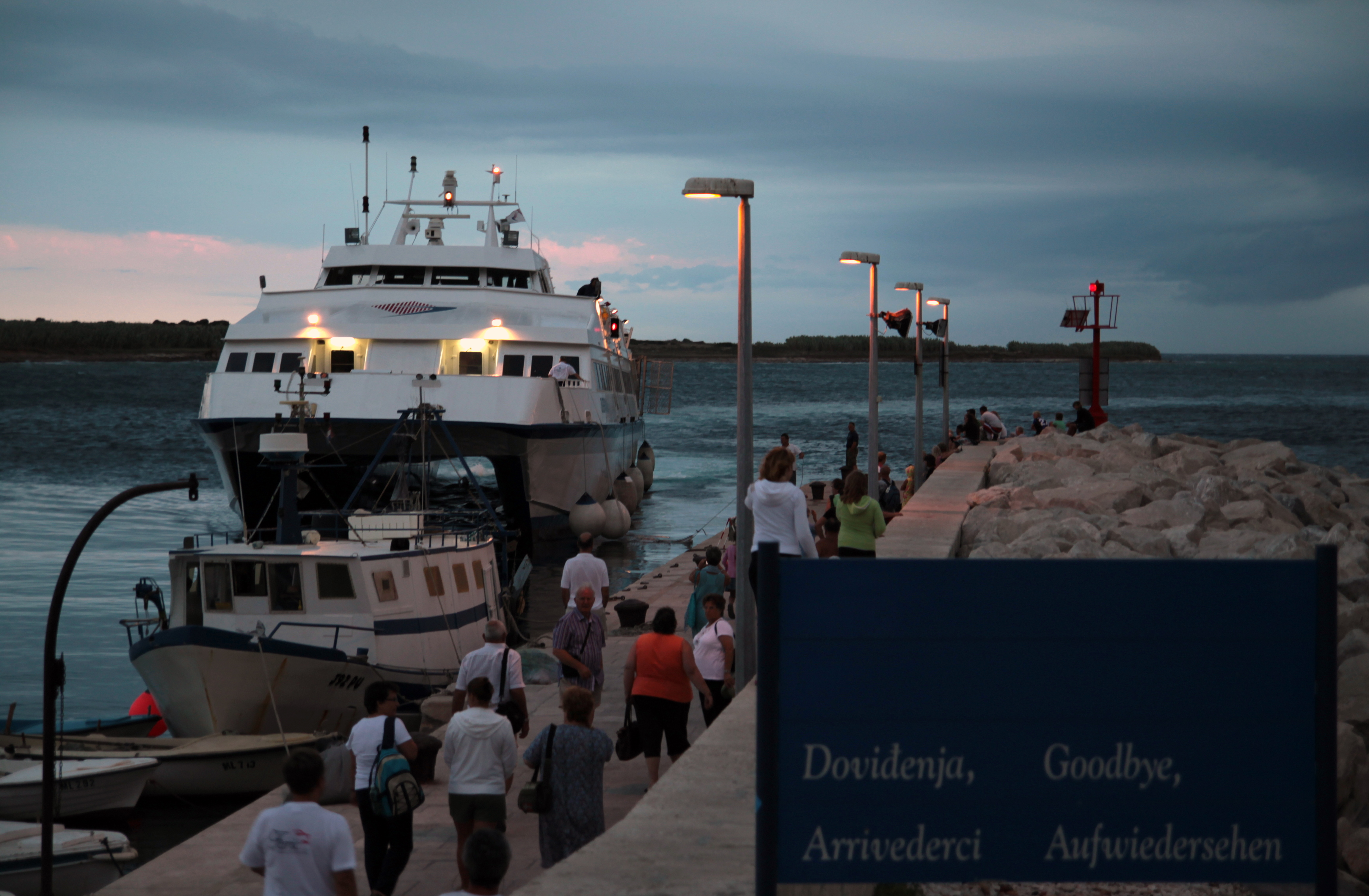 Dubravka catamaran docks, Unije.